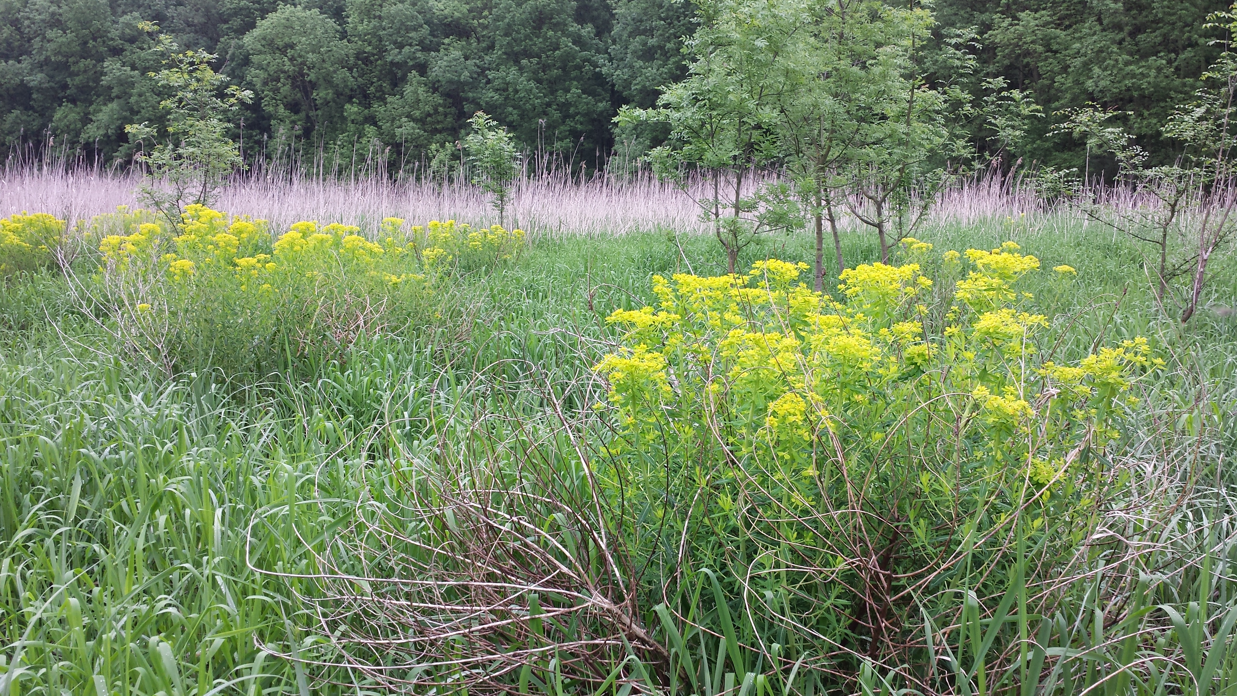 Taxon: Euphorbia palustris Location: Fürstenwald bei Hohenau an der March, district Gänserndorf, Lower Austria Habitat: swamp Identified according to: Fischer et. al. ExFlora Austria etc. 2008